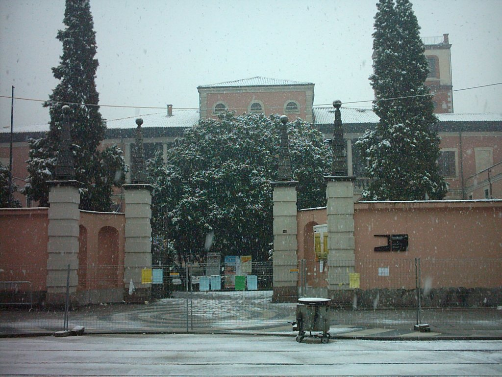 Photo taken during the Linux Day 2005